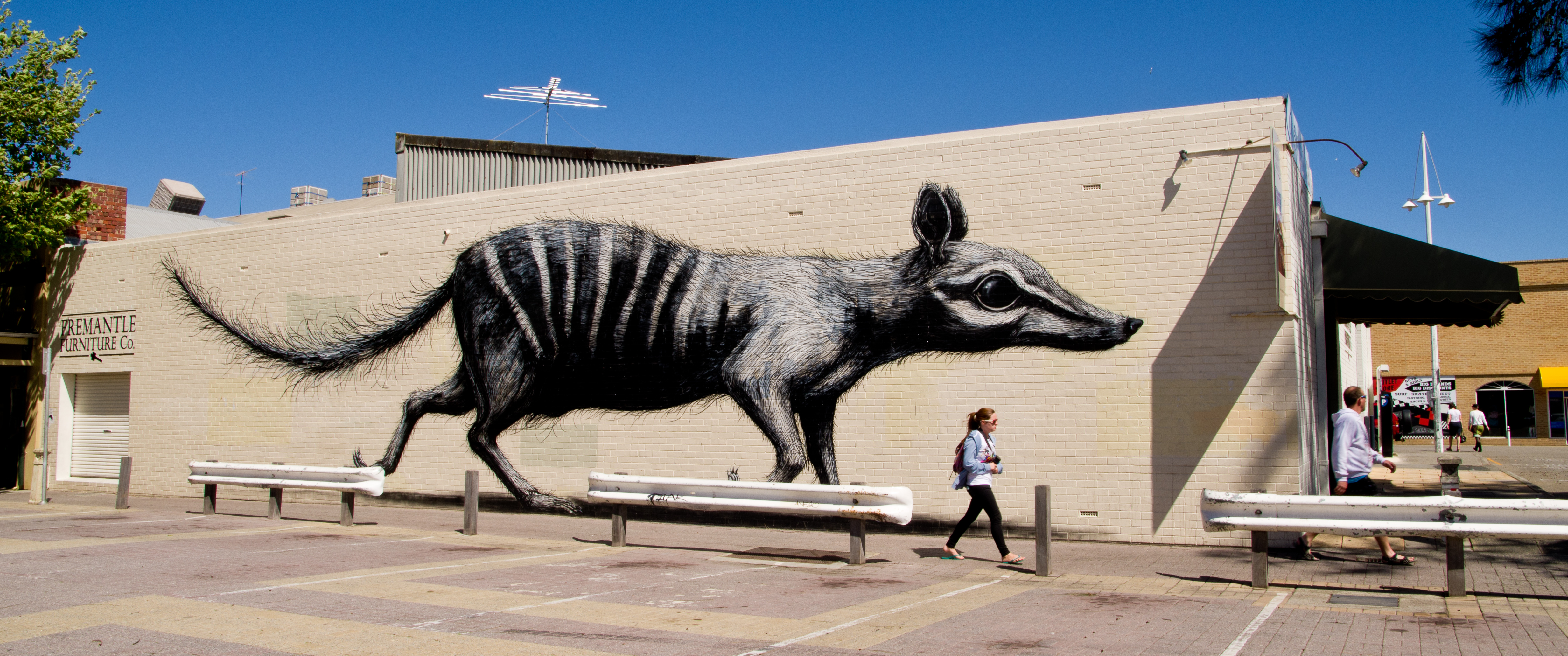 Taken for articles needing images relating to Freopedia's assistance with the Piccolo Exhibition at the Moores Building Oct-Nov 2013 Shanghai building Hendersen street Fremantle with ROA work of a numbat commissioned by the City of Fremantle